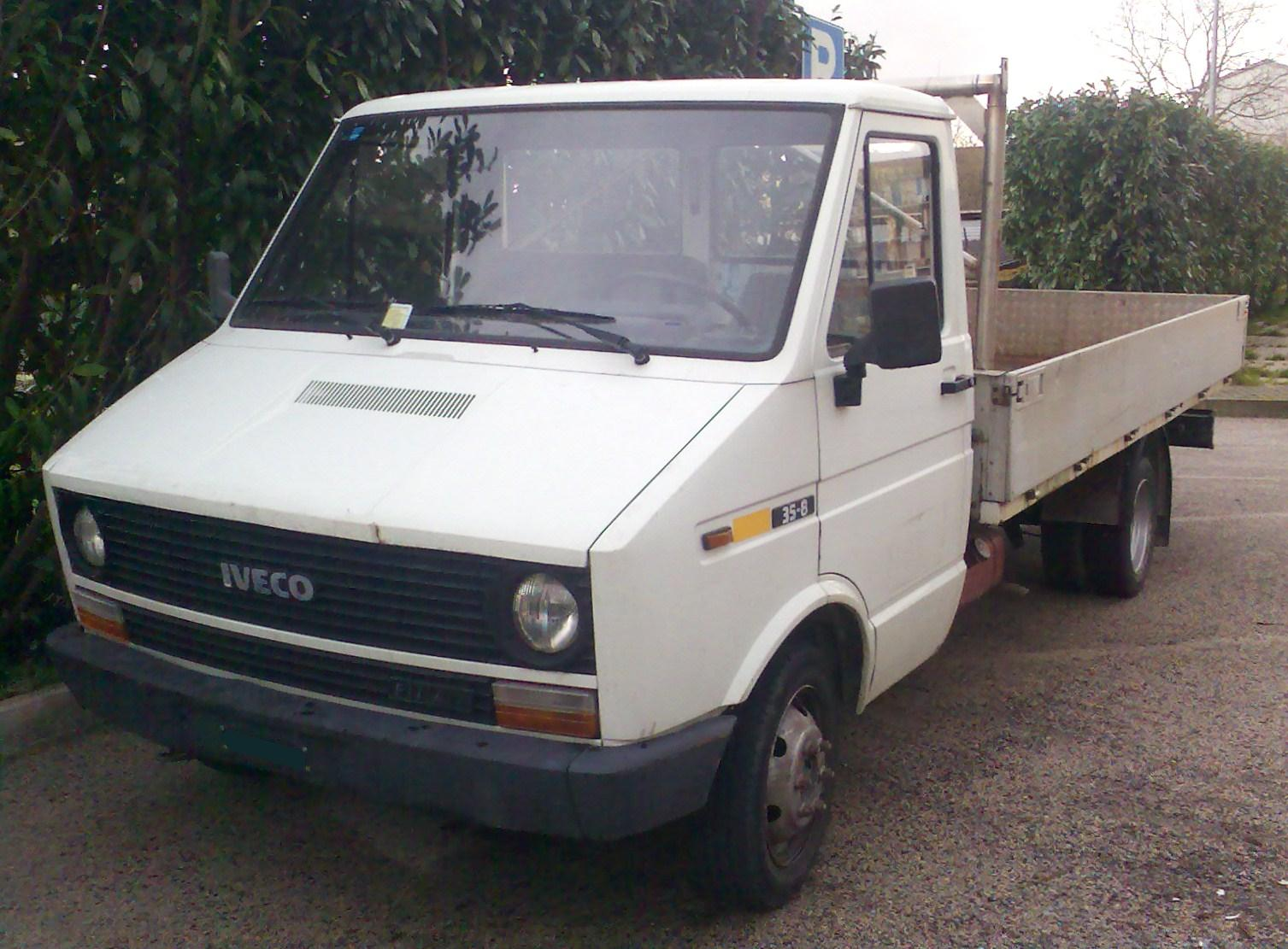 1980 Iveco-Fiat Daily 35-8 front.